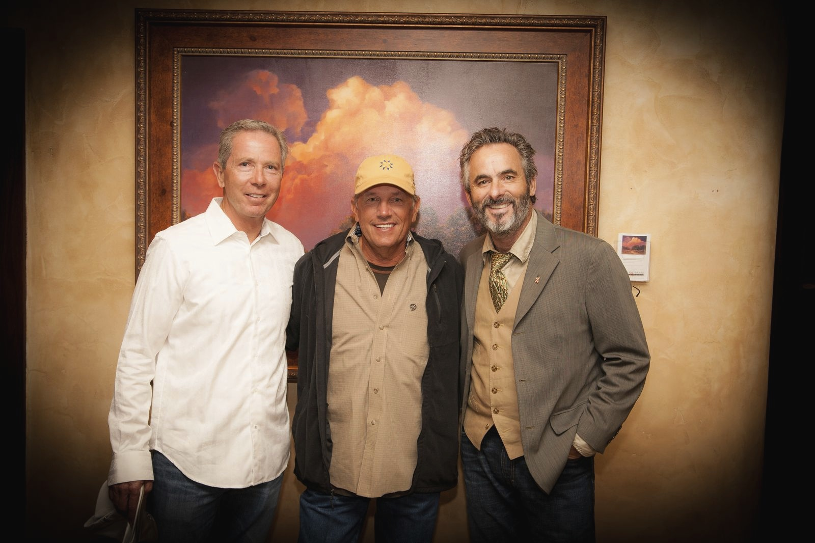 Tom P. Cusick JR, George Strait, and David Feherty hosts of their annual charity golf tournament Vaqueros Del Mar II 2012 at Tapatio Springs Resort in Boerne, Texas.